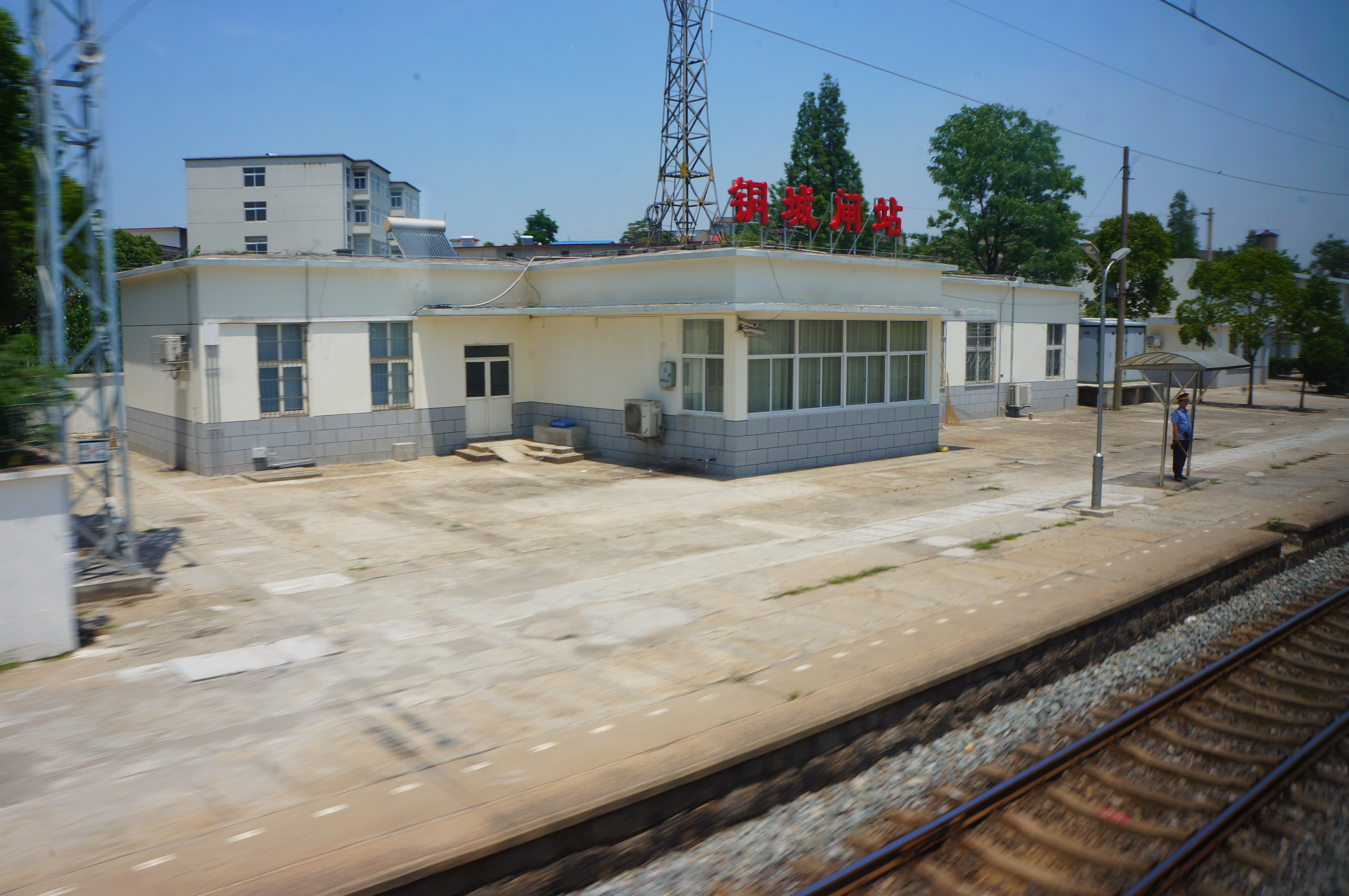 201705 Conductor of Tongchengzha Station